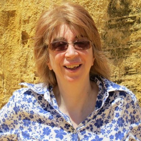 Portrait of Fiona Finlay